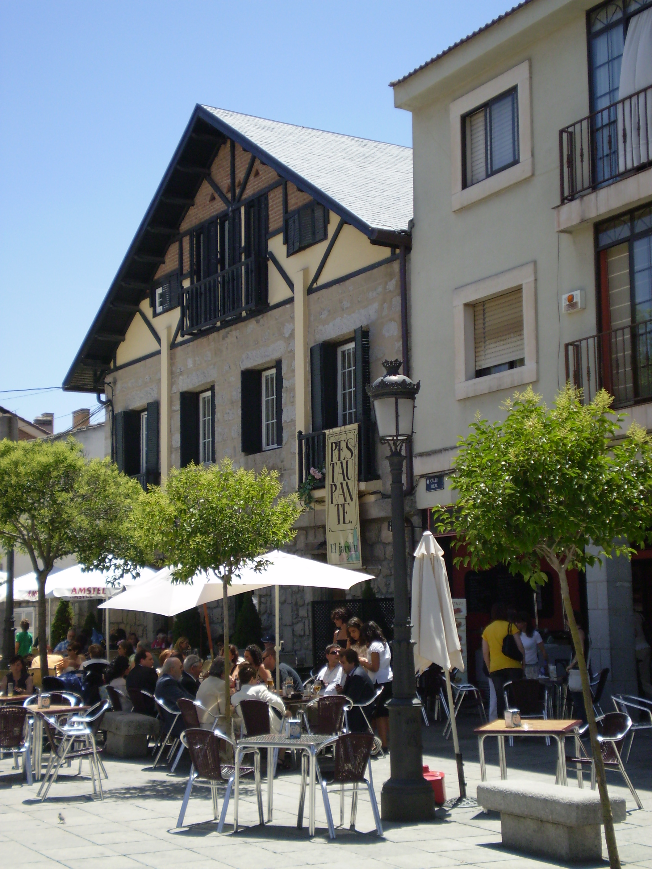 Building in Real Street. Torrelodones, Madrid, Spain